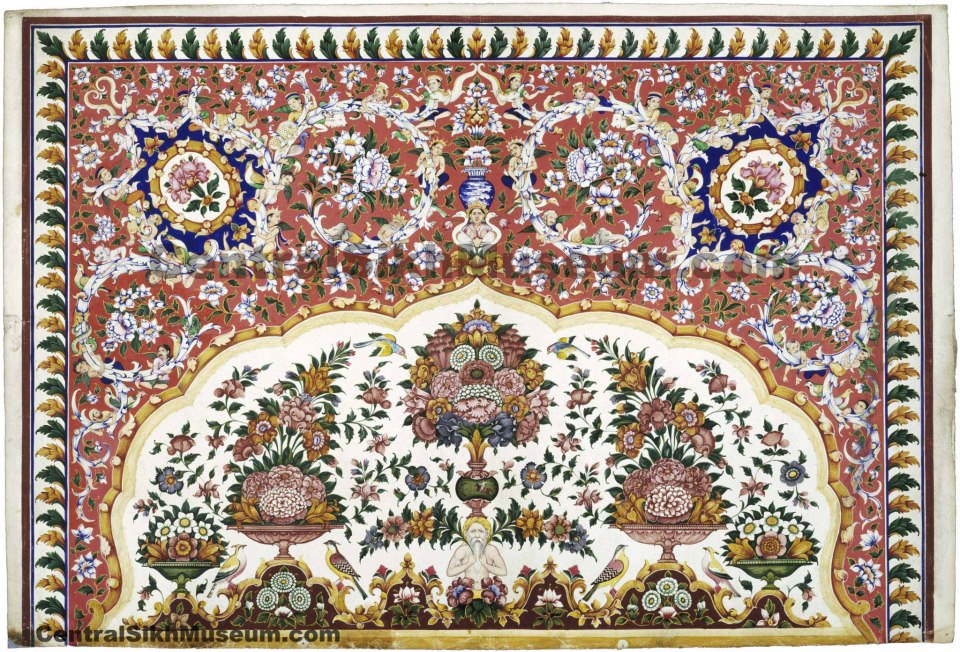 A Opaque Watercolor on paper copy of Nakashi 1880c made by a Unknown Artist of Lahore or Amritsar. This Nakashi was used to decorate the walls of Shri Darbar Sahib.